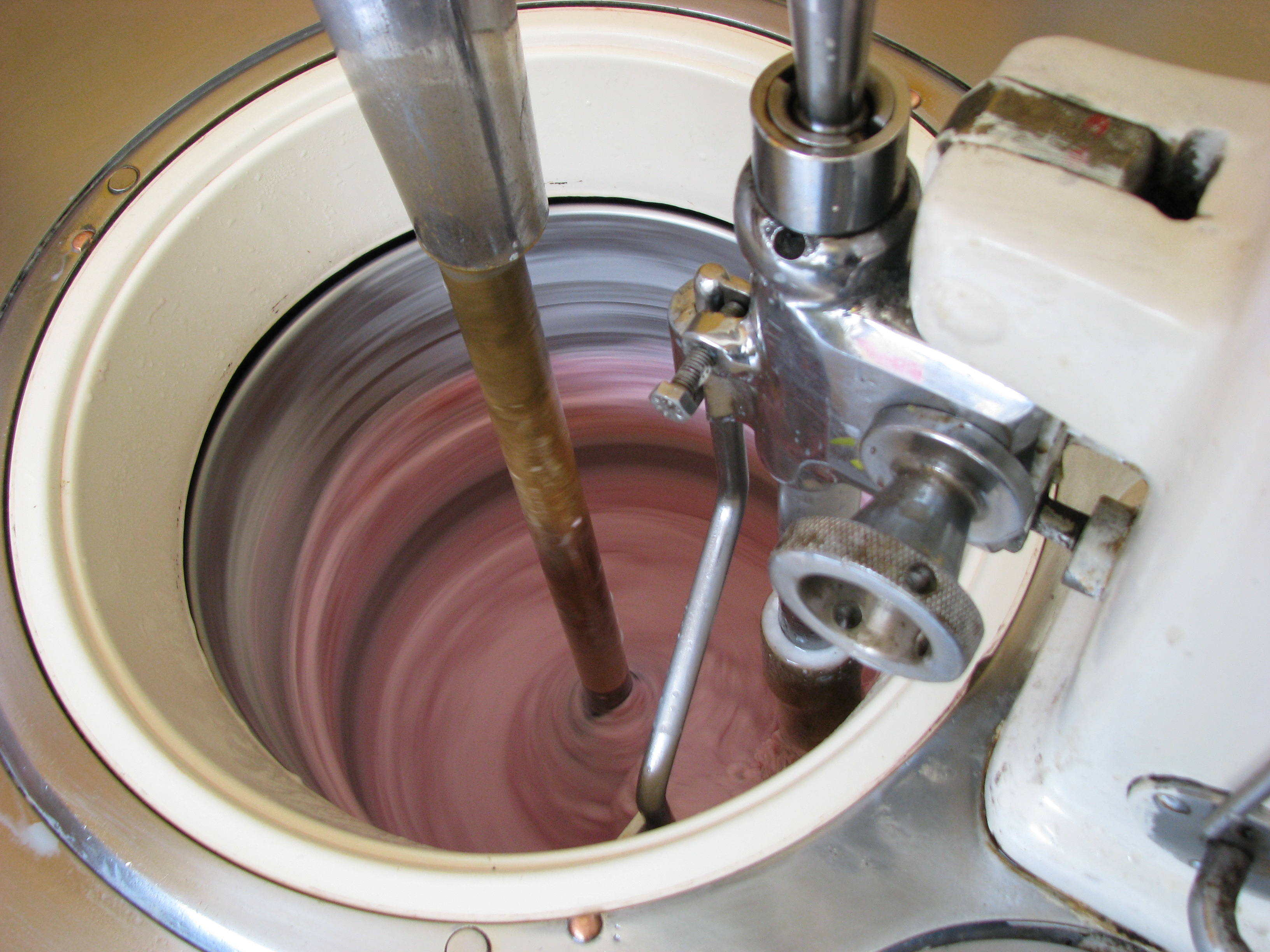 Looking into the ice cream maker Boku Europe during the preparation of strawberry ice cream at Delzepich Ice in Aachen.